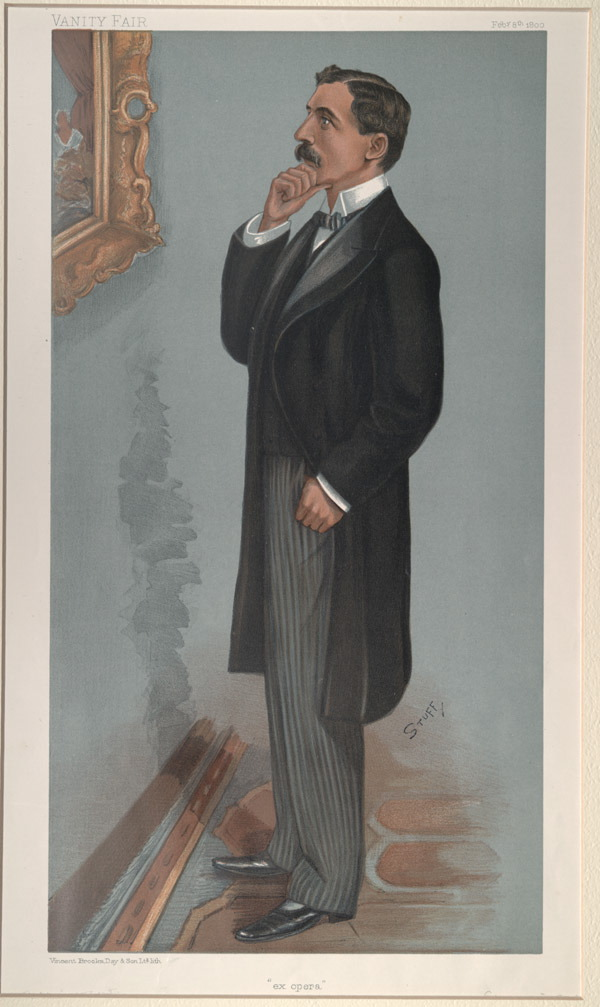 Men of the Day No.773: Caricature of Mr GD Faber. Caption reads: "ex opera"